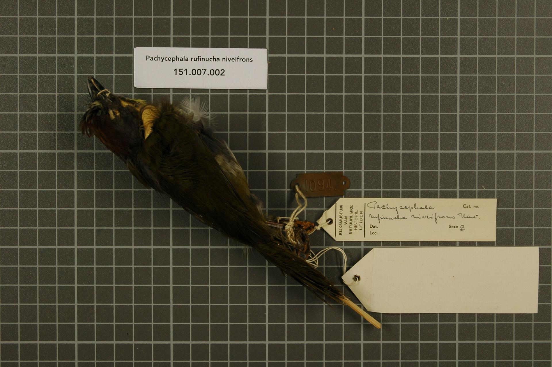 Pachycephala rufinucha niveifrons Hartert, 1930